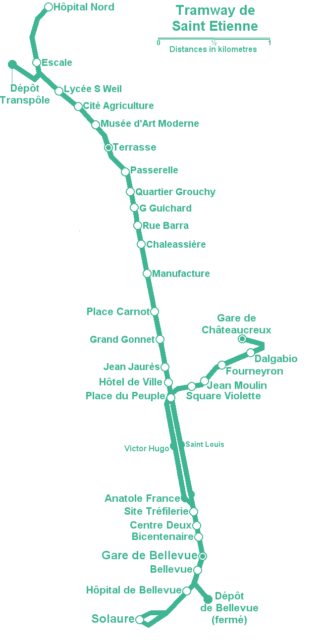 Map of Saint Etienne Tramway, Saint Etienne.